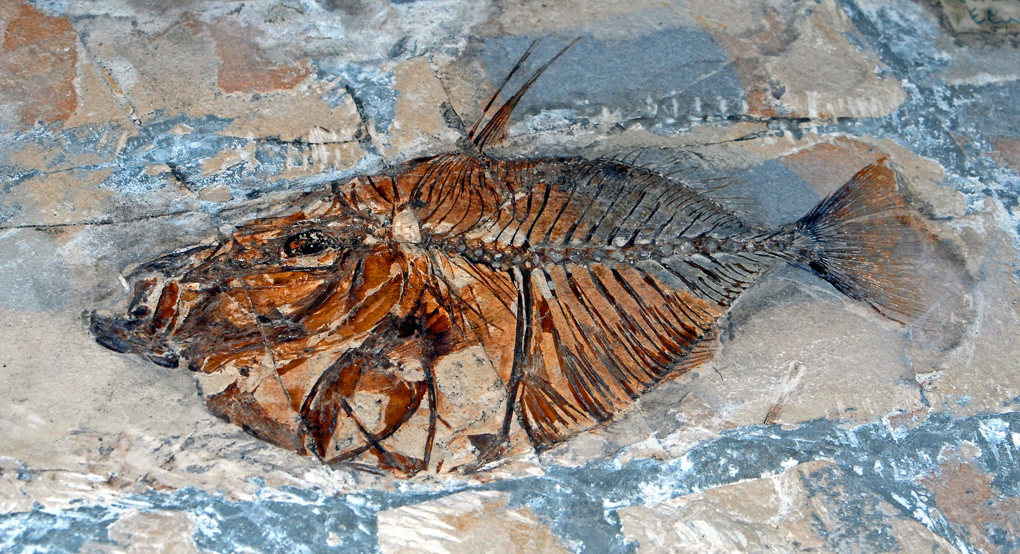 Vomeropsis triurus at the Museo Civico di Storia Naturale di Milano